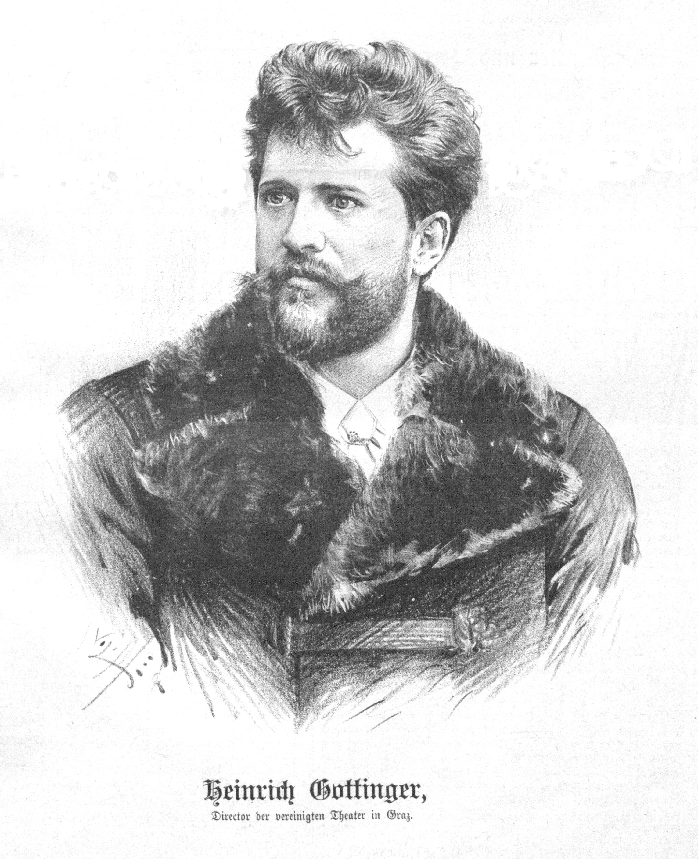 Portrait of Heinrich Gottinger (1860-1929), German and Austrian actor, opera singer and director of a theater.